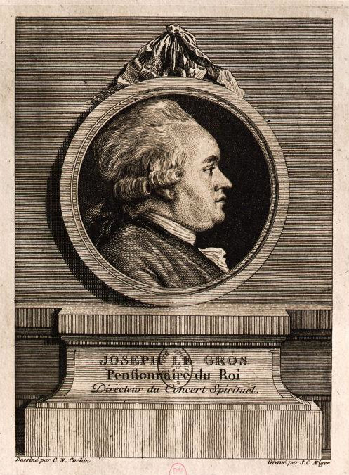 Joseph Legros (1739-1793), director of the Concert Spirituel in Paris